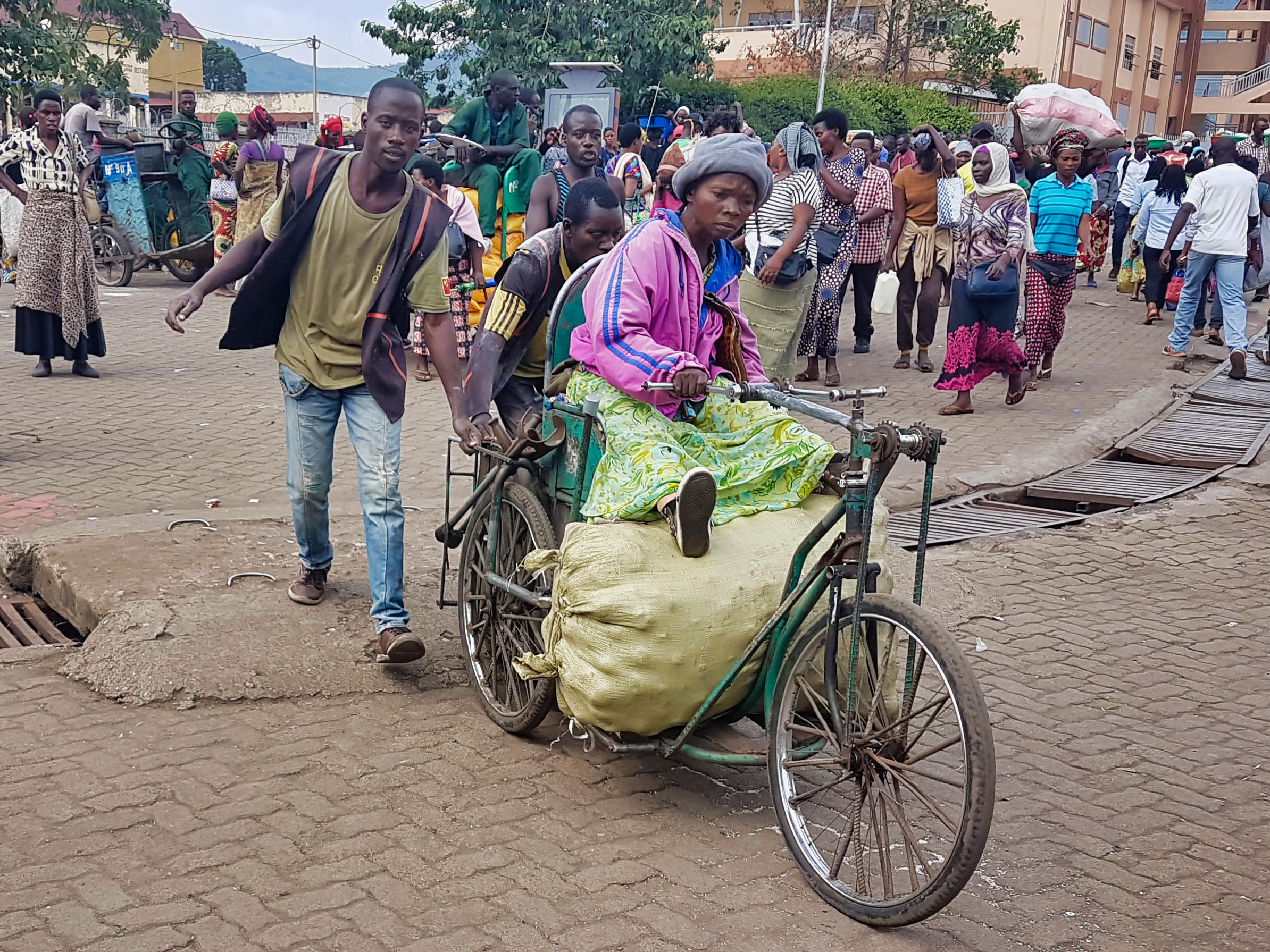 This image captures an example of small-scale cross-border trade that is prevalent at the Rwanda-DRC border and elsewhere in Africa. This is an image with the theme "Africa on the Move or Transport" from: Rwanda